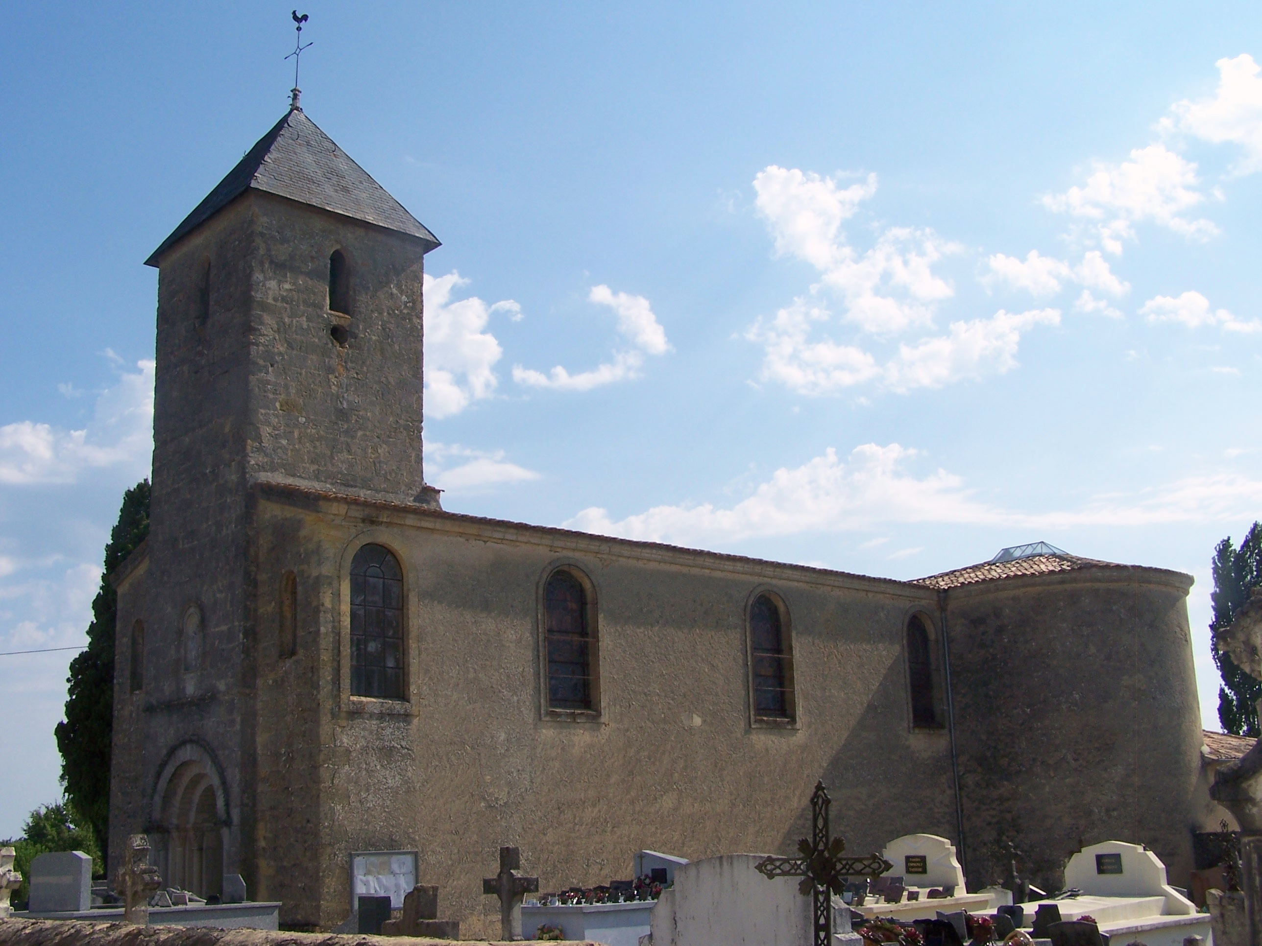 Church of Coimères (Gironde, France)